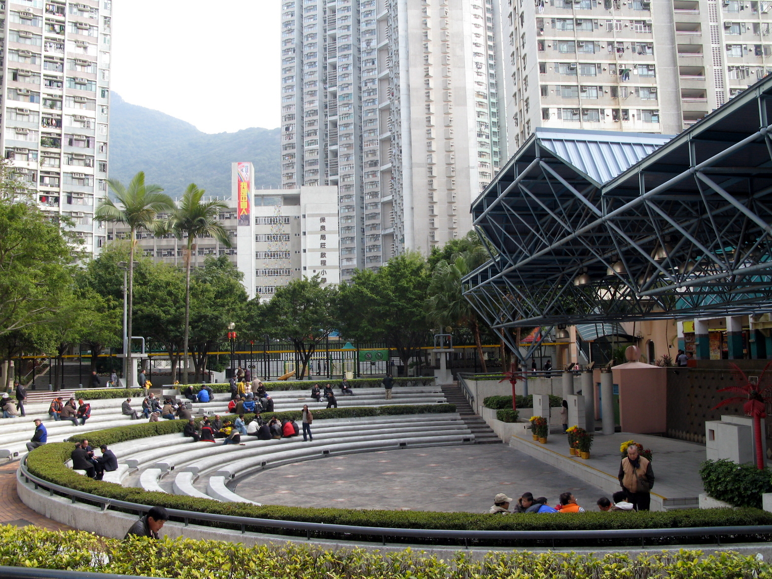 Theatre in Yiu On Estate, Ma On Shan